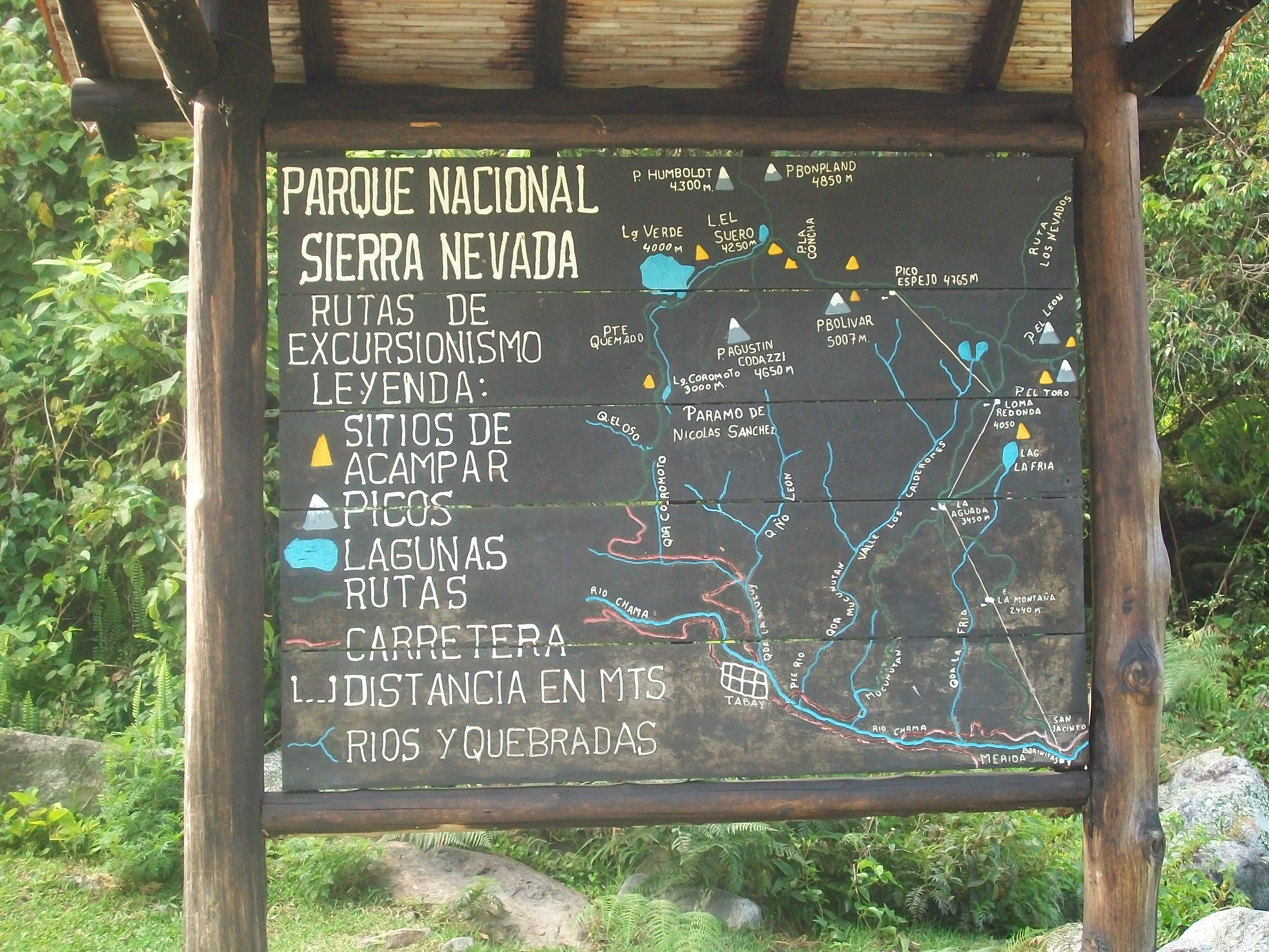 Map provided by La Mucuy park that details the trails up the Sierra Nevada, the highest peaks in Venezuelan territory.